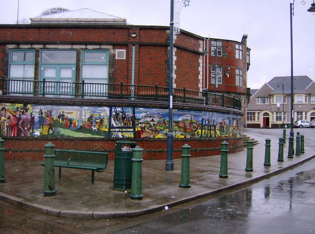 Mural in Crumlin